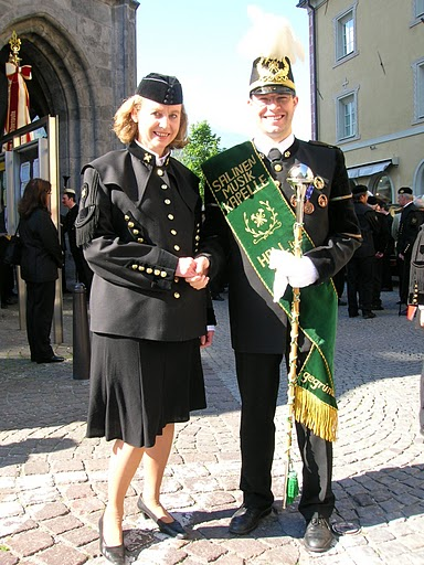 Salinenmusik Präsidentin Evi Posch und Kapellmeister Daniel Walch